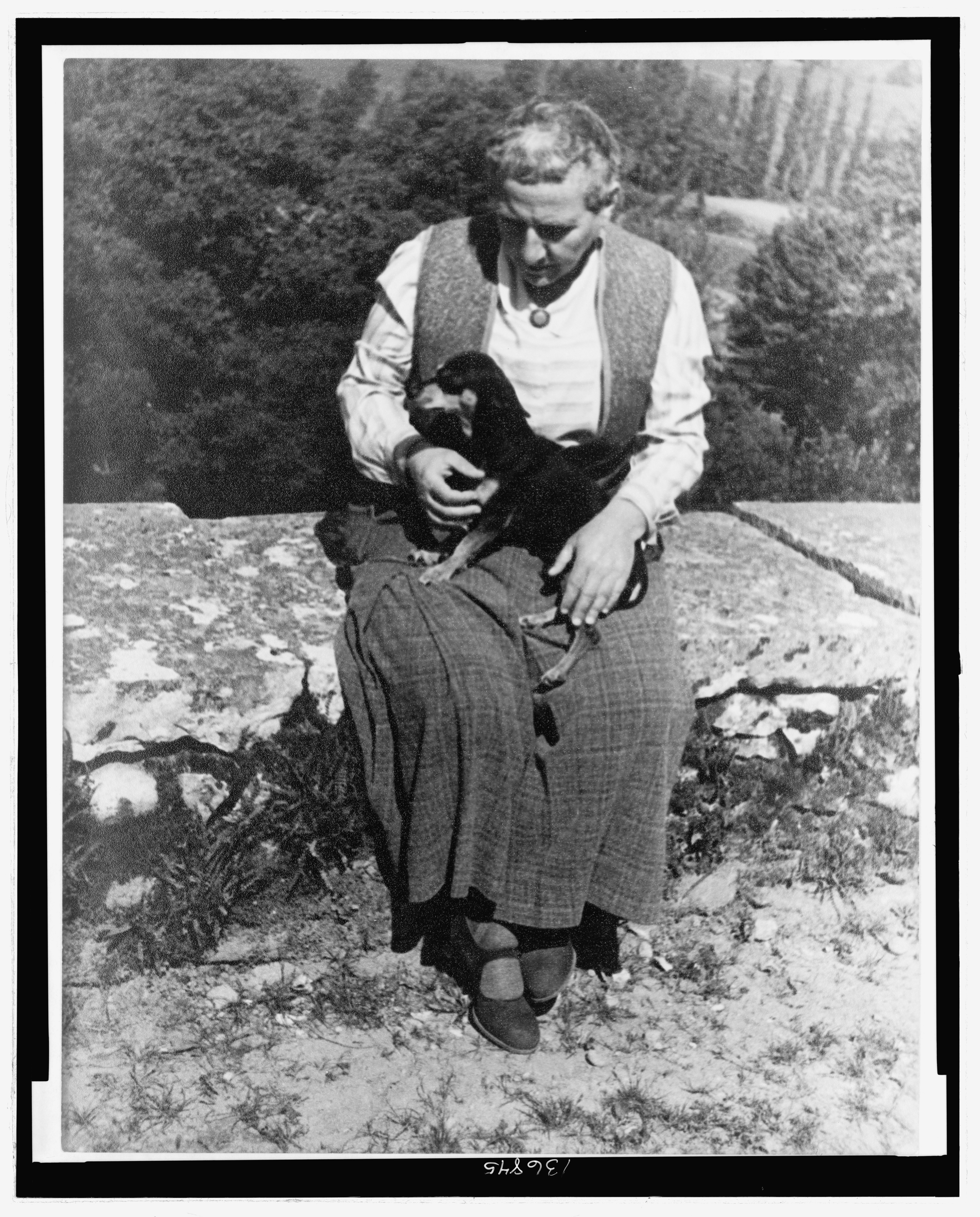 Title: Portrait of Gertrude Stein, with dog Pepe, Biliguin Abstract/medium: 1 photographic print : gelatin silver.